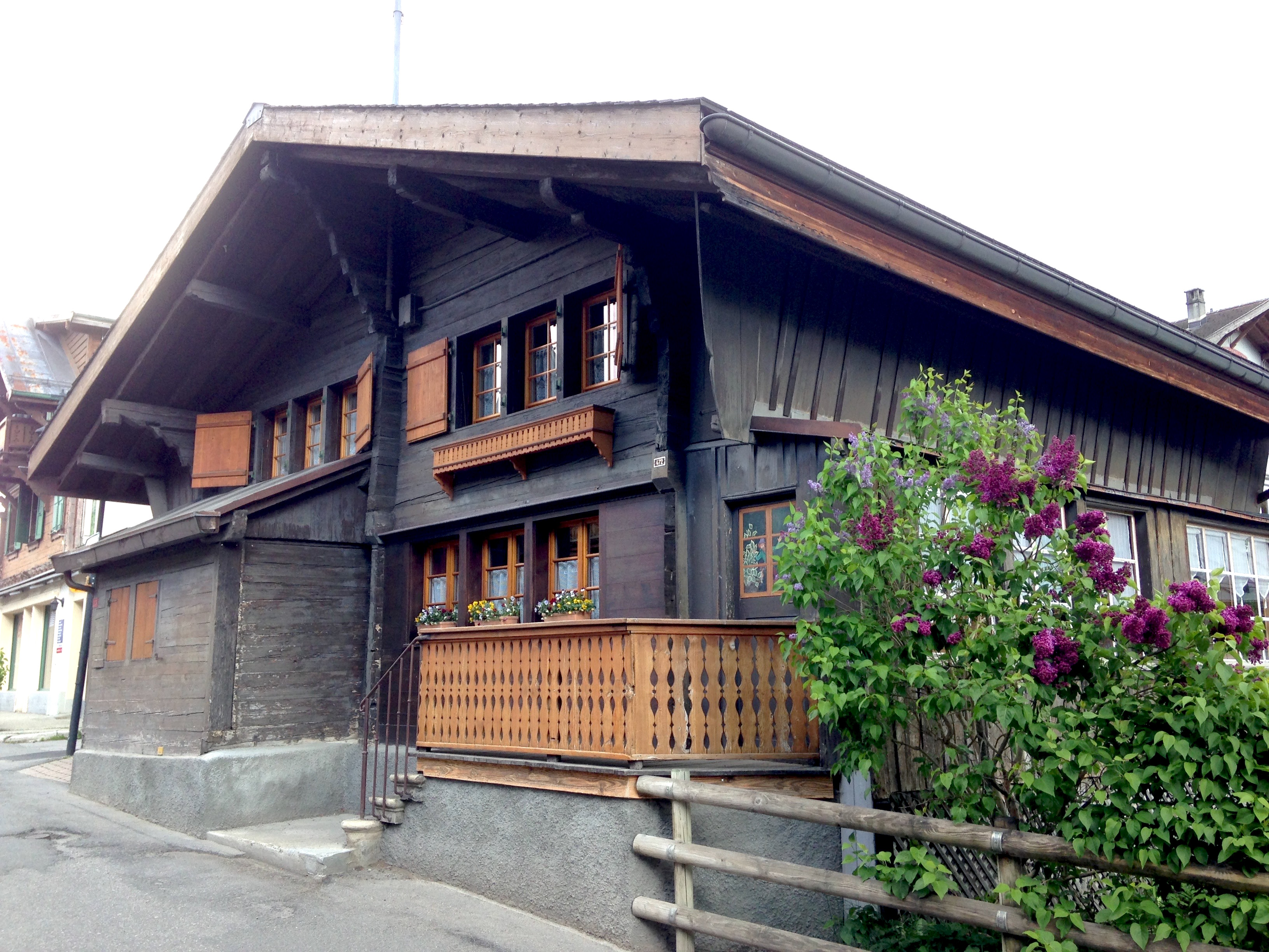 Swiss Chalet, year 1600, Leysin (Vaud, Switzerland).